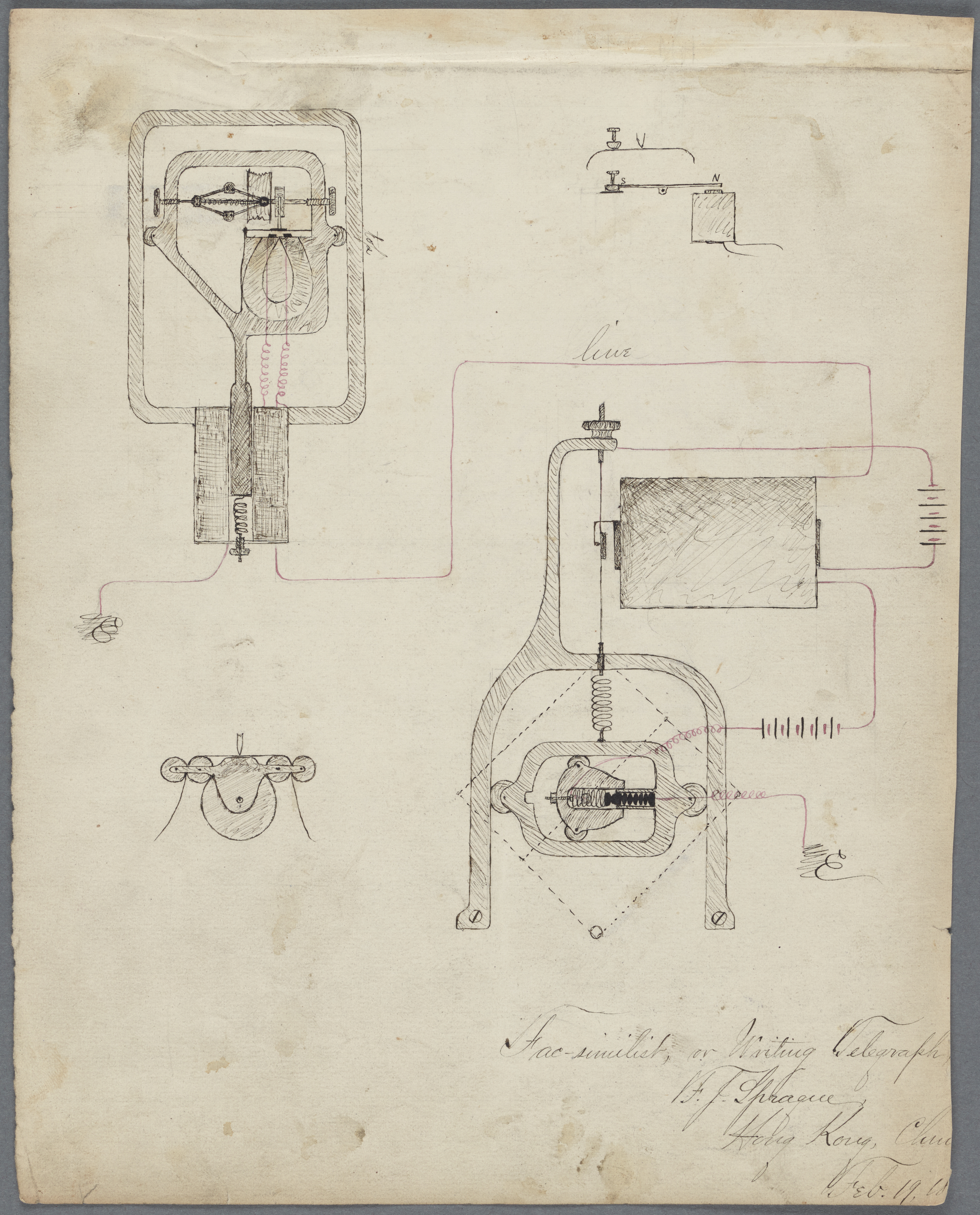 Frank J. Sprague, notes on seamanship, with drawings of sail boat parts, and electrical equipment